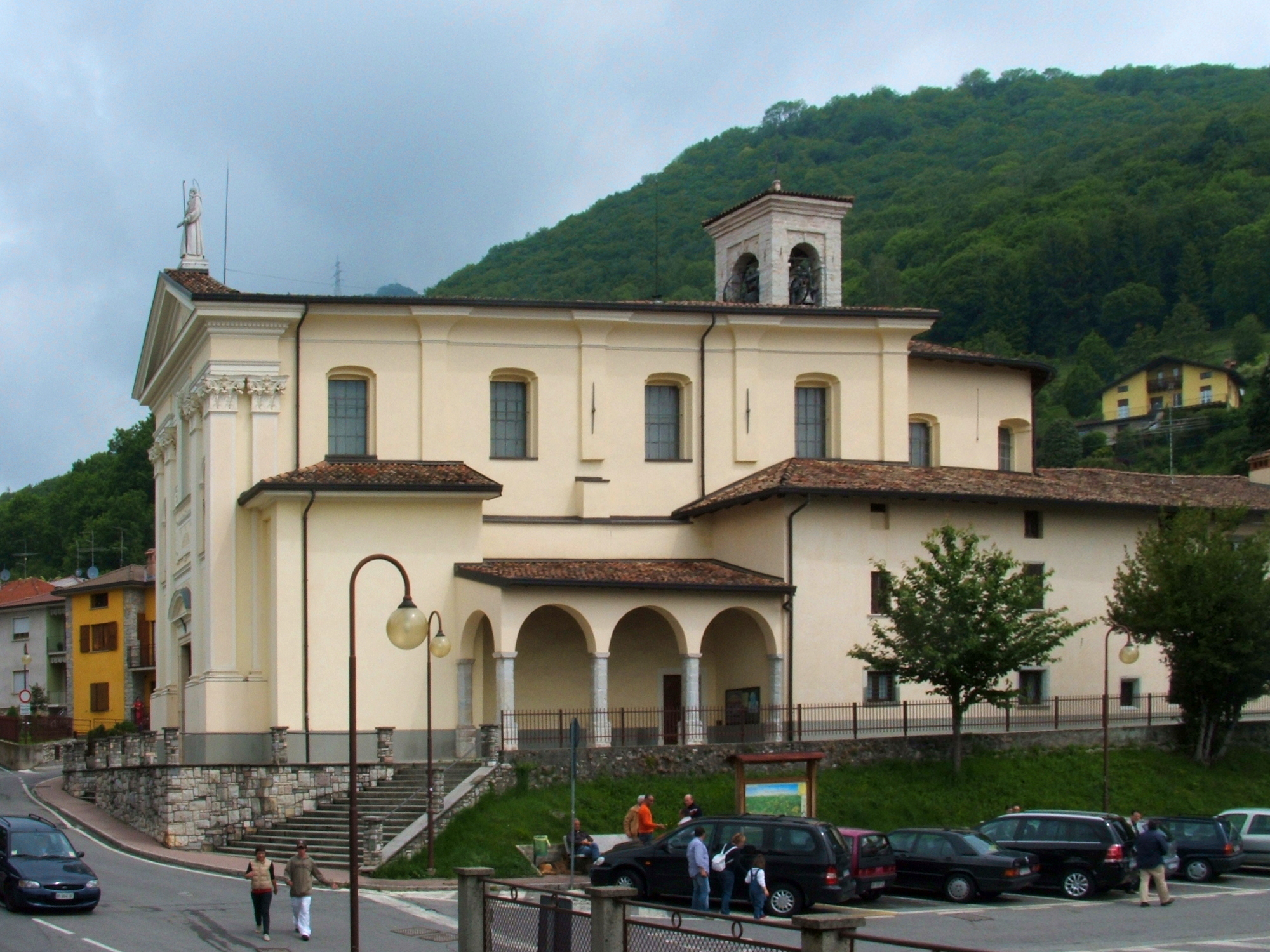 Nembro, Bergamo, Lombardy, Italy – Parish church of Lonno